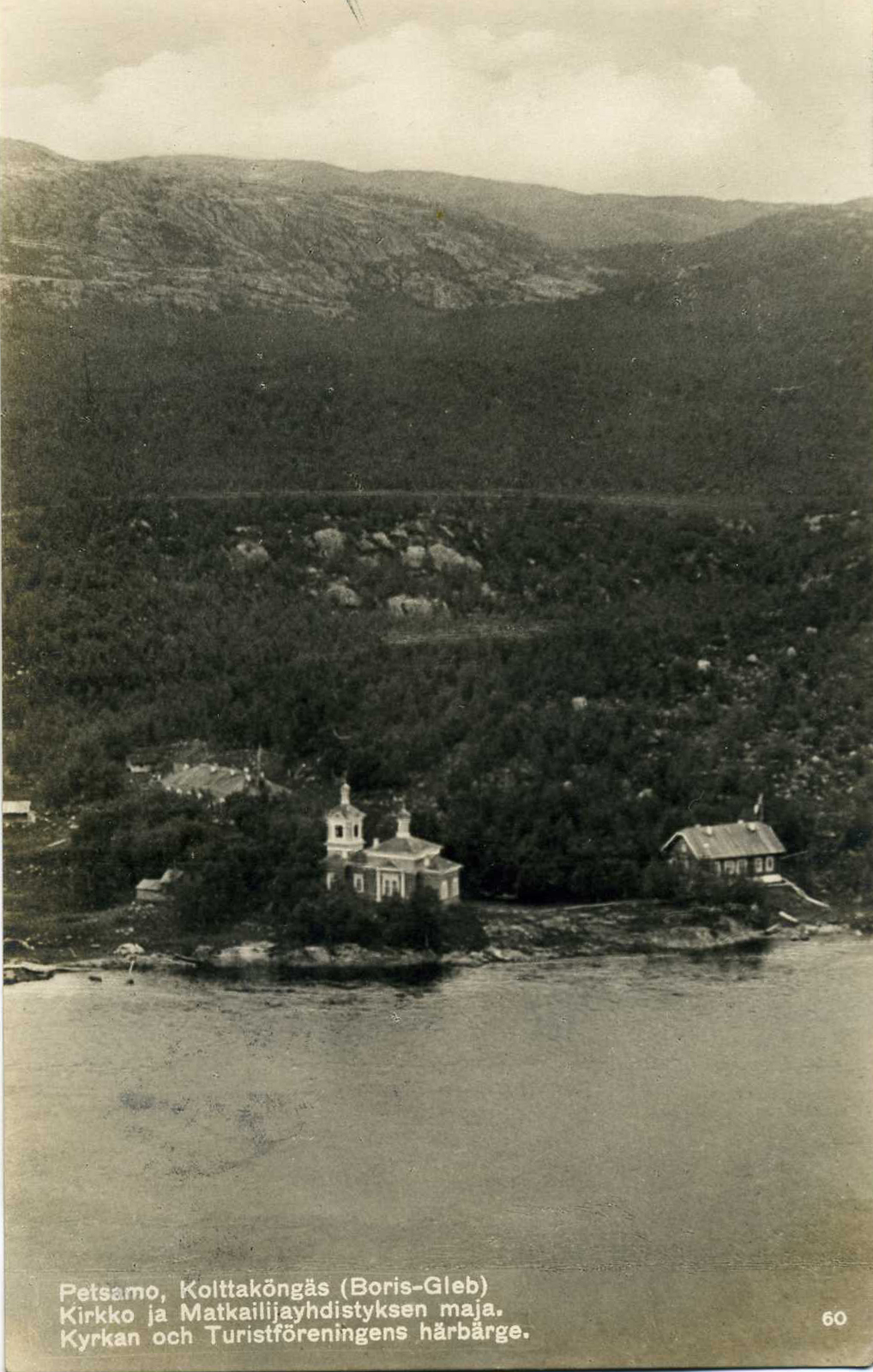 back